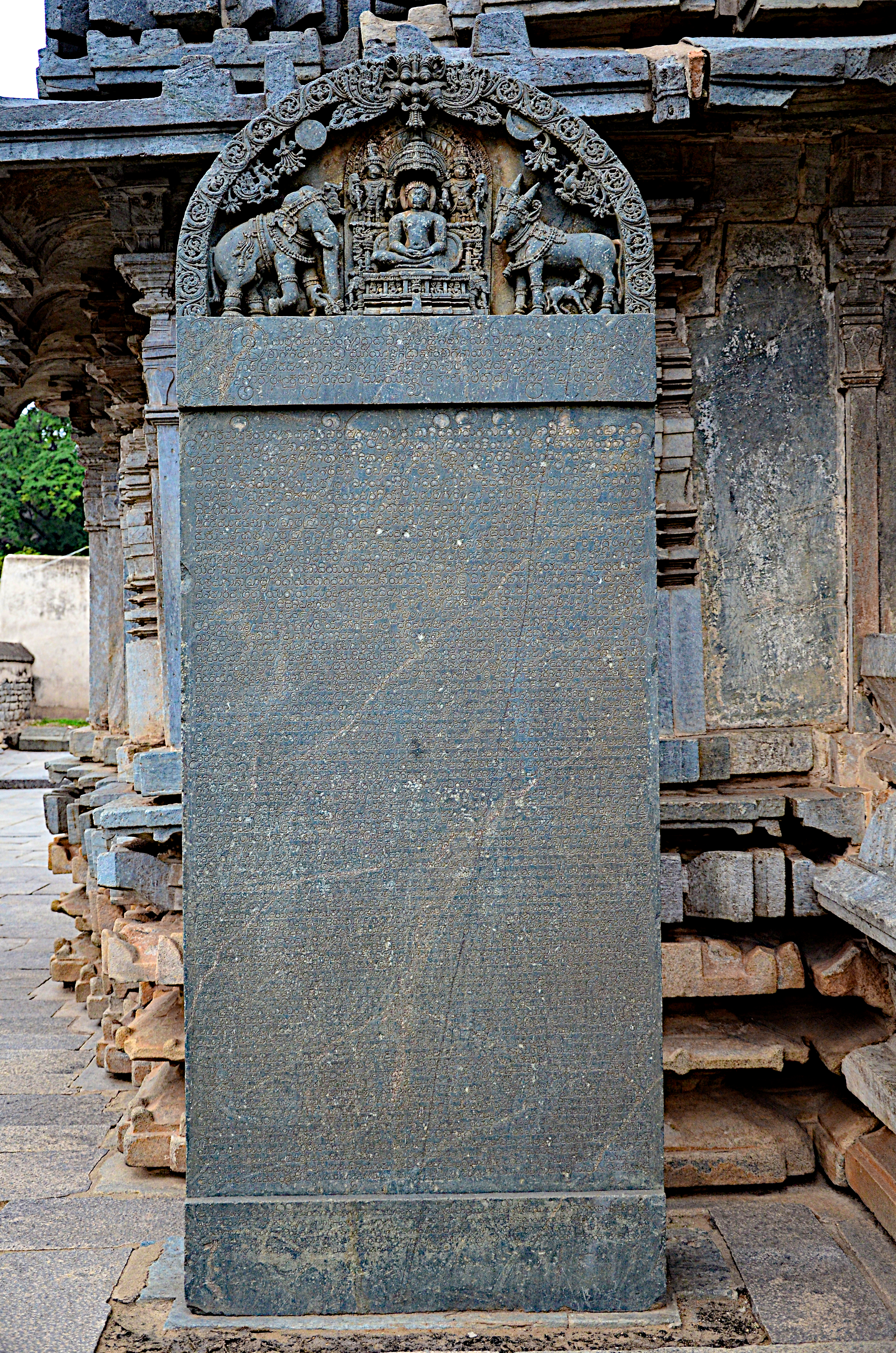 The old Kannada (Hale Kannada) inscription stone (1182 A.D.) is kept right next to the main entrance. Source:Epigraphia Carnatica, Inscriptions at Shravanabelaola, Benjamin Lewis Rice (1889). Chapters:Introduction, p.2. p.57; List of Inscriptions by chronological order, page II, inscription no.124